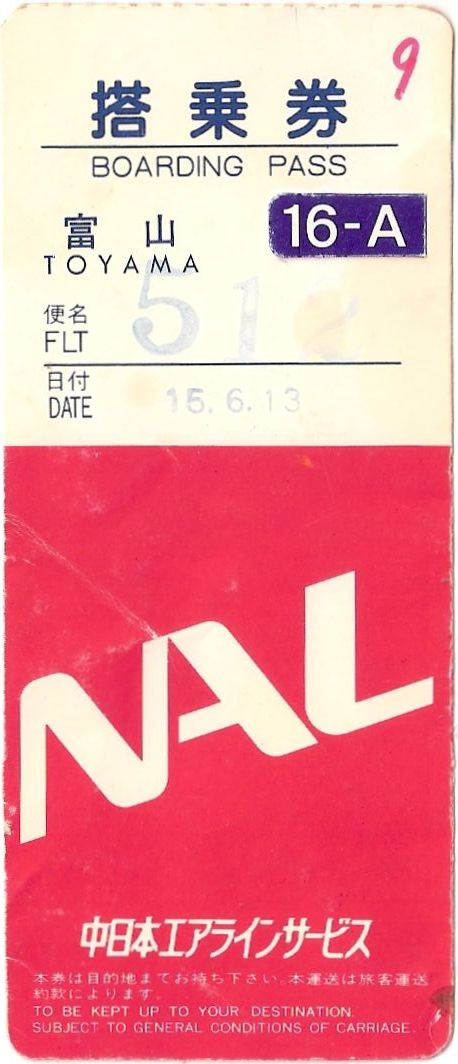 Boarding Pass of Nakanihon Airline Service (Air Central)